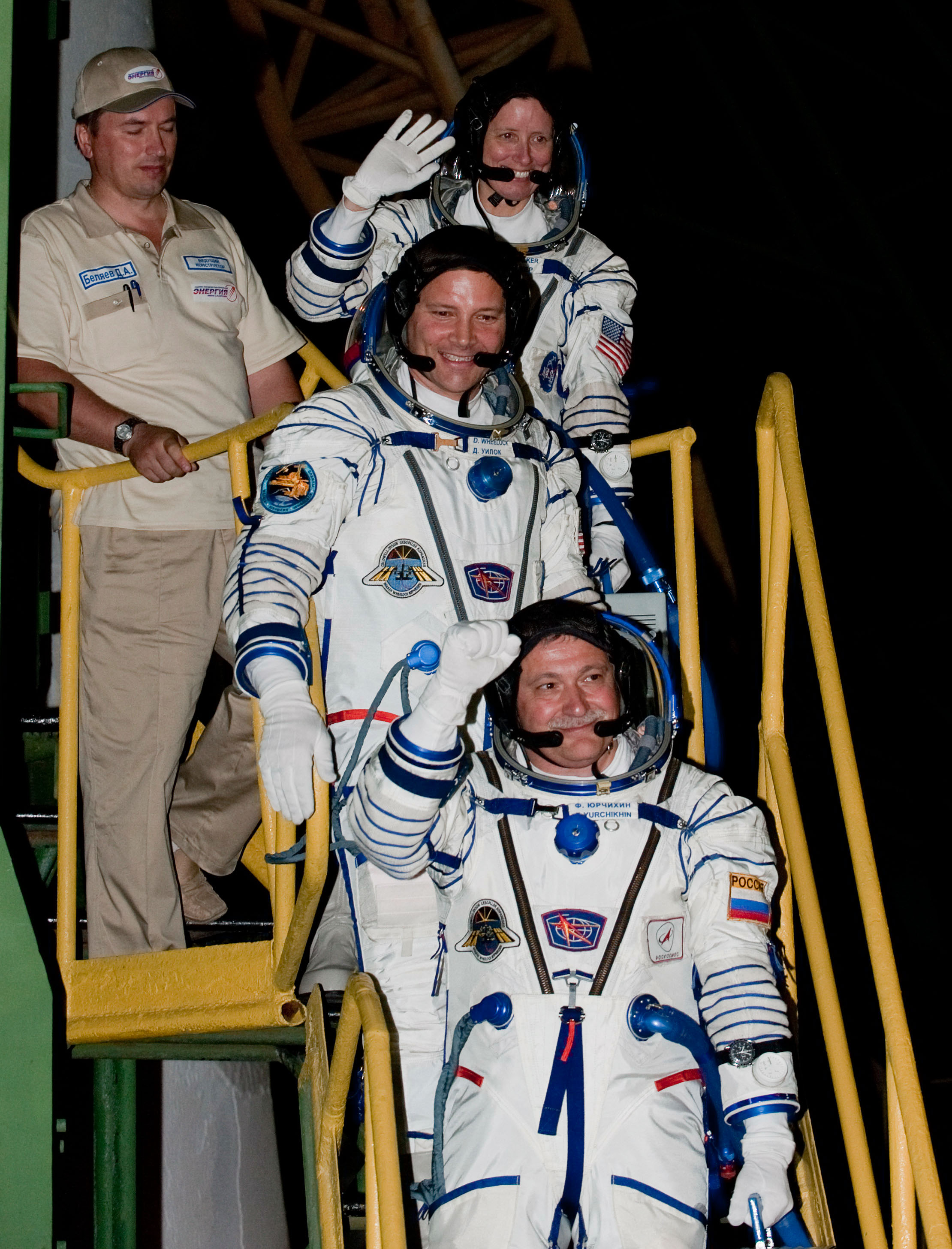 The Expedition 24 crew members (from top to bottom) -- NASA astronaut Shannon Walker, Doug Wheelock and Soyuz commander Fyodor Yurchikhin of Russia's Federal Space Agency -- wave farewell from the bottom of the Soyuz rocket at the Baikonur Cosmodrome in Baikonur, Kazakhstan, prior to their launch. Walker, Wheelock and Yurchikhin launched in their Soyuz TMA-19 rocket from the Baikonur Cosmodrome in Kazakhstan at 5:35 p.m. (EDT) June 15, 2010 (3:35 a.m., June 16, Kazakhstan time).